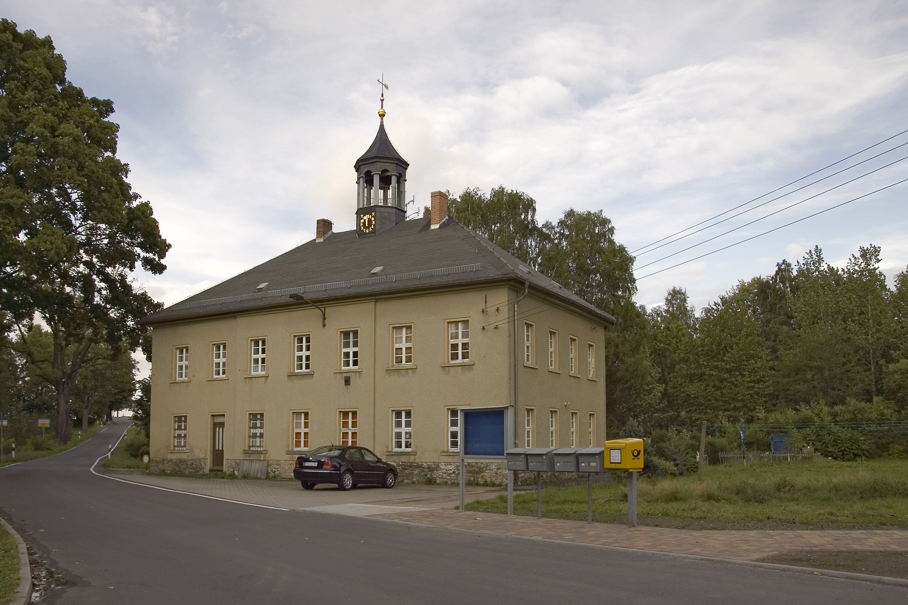 Himmelsfürst (Brand-Erbisdorf), pit head building